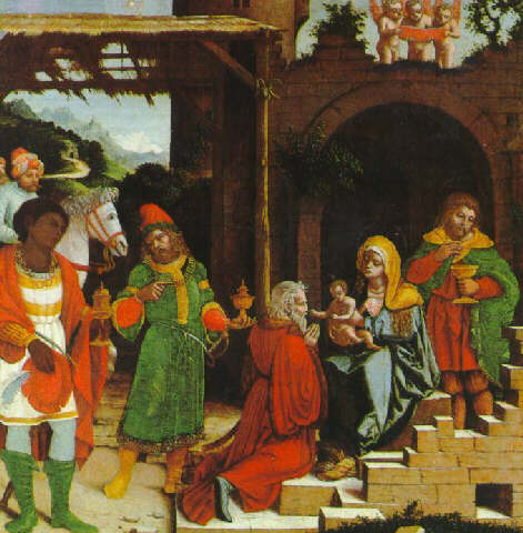 The adoration of Magi